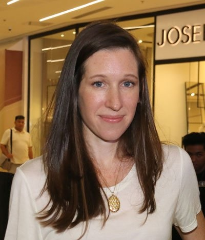 Lauren Kate.